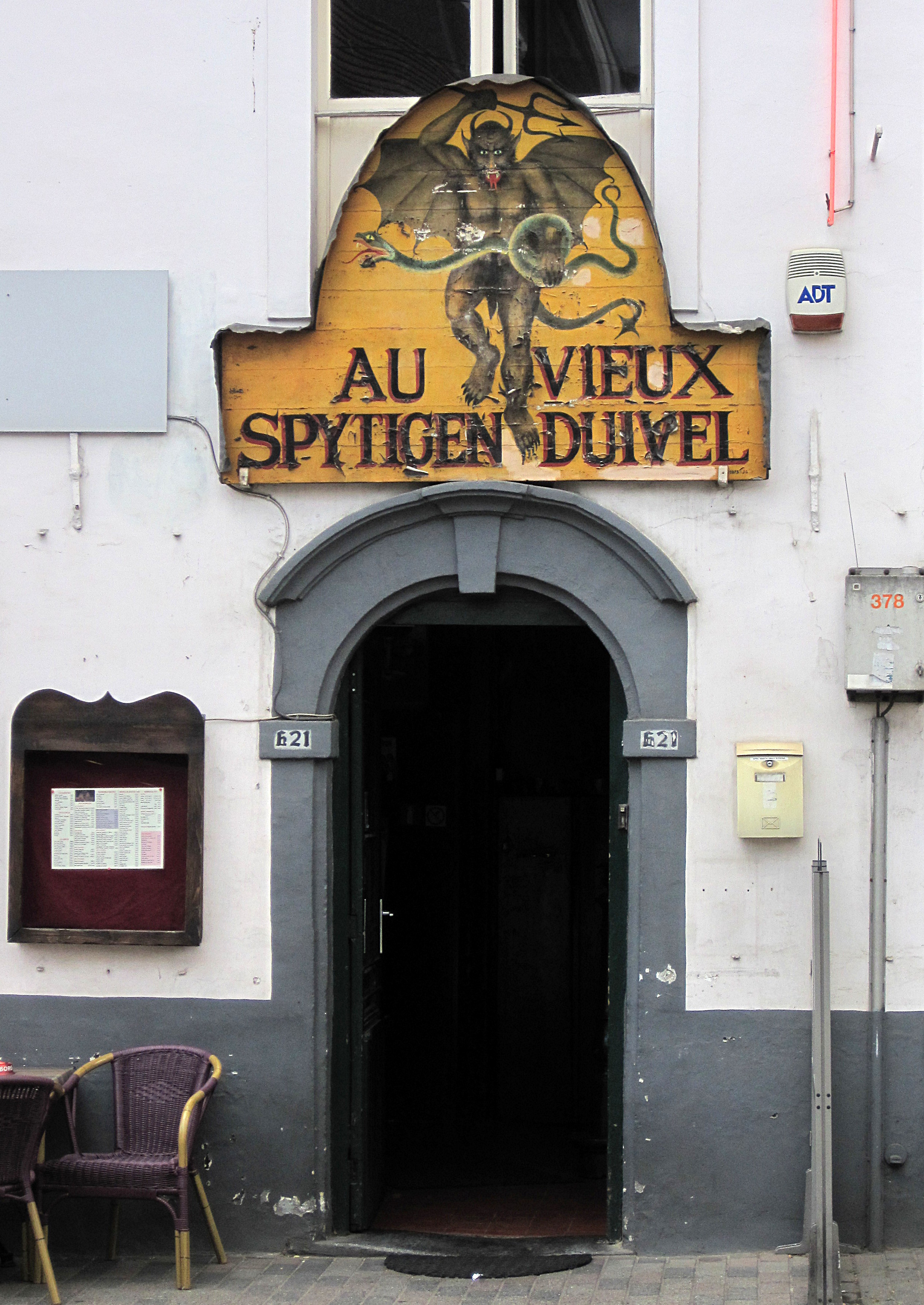 Uccle (Belgium), shop sign and entrance to one of the oldest taverns in the urban agglomeration of Brussels.